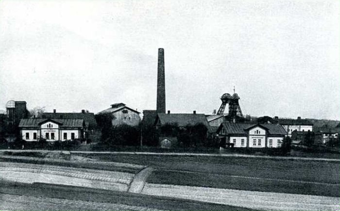 The colliery Hohenegger in Karviná (Czech Republic) in 1900